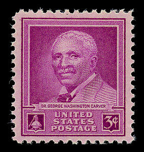 US Postage stamp Dr. George Washington Carver (1864-1943) was honored by a 3-cent red violet stamp issued on January 5, 1948